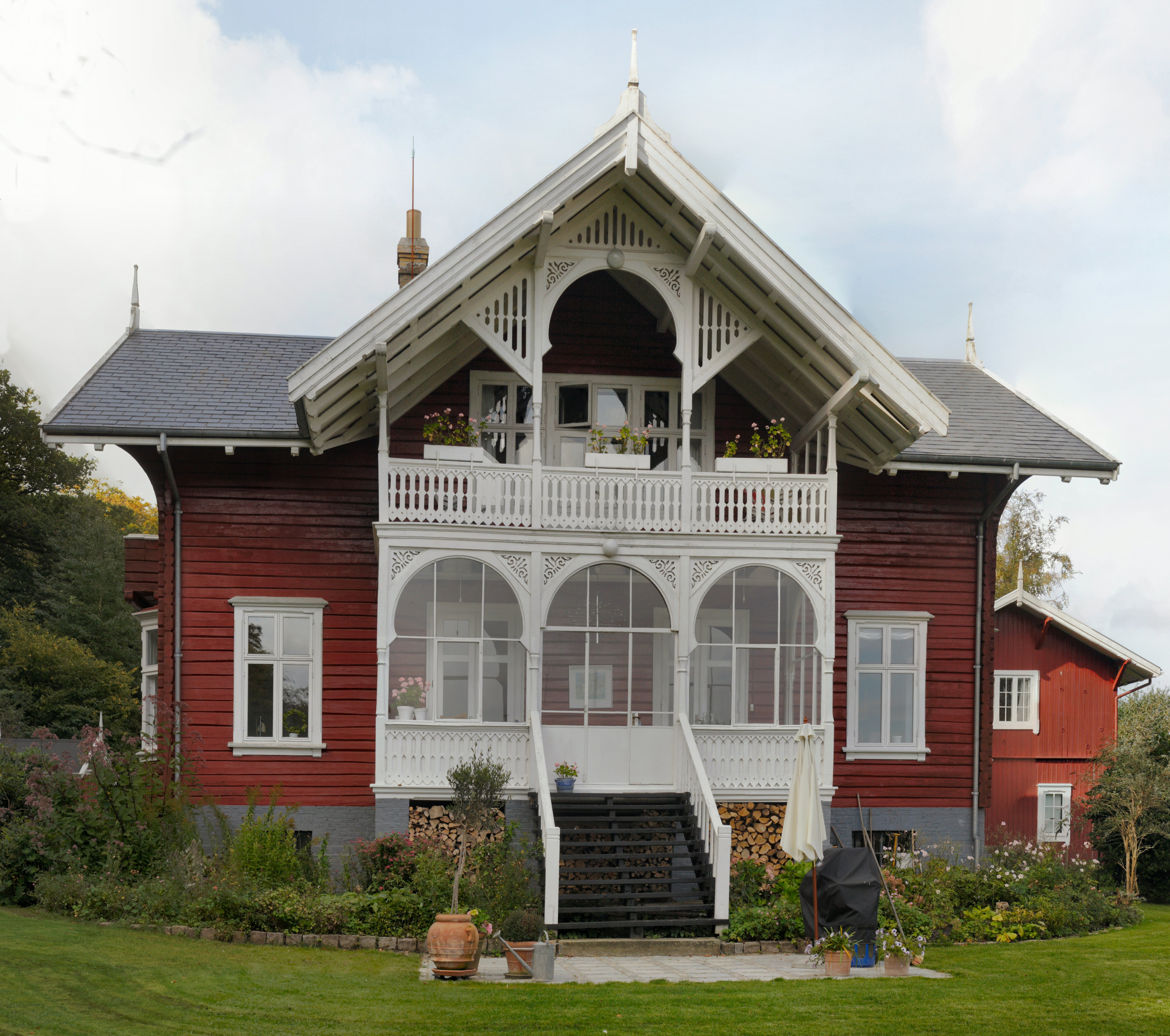 Det Norske Hus (The Norwegian House) from 1888 seen from the garden - east, drawn by Martin Nyrop. Near Aarhus, Denmark.